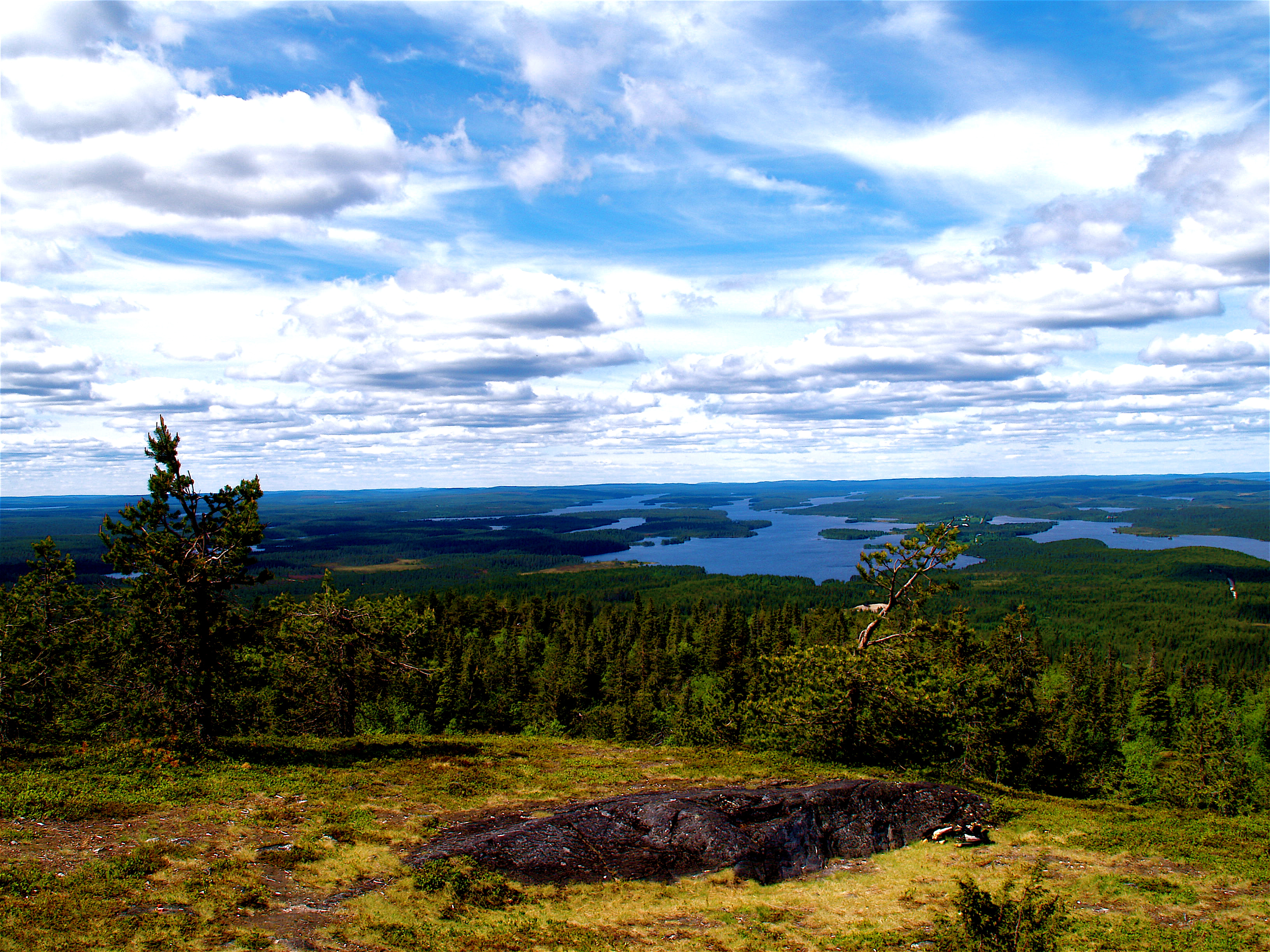 View from the Iivaara hill towards Lake Iijärvi in Kuusamo, Finland